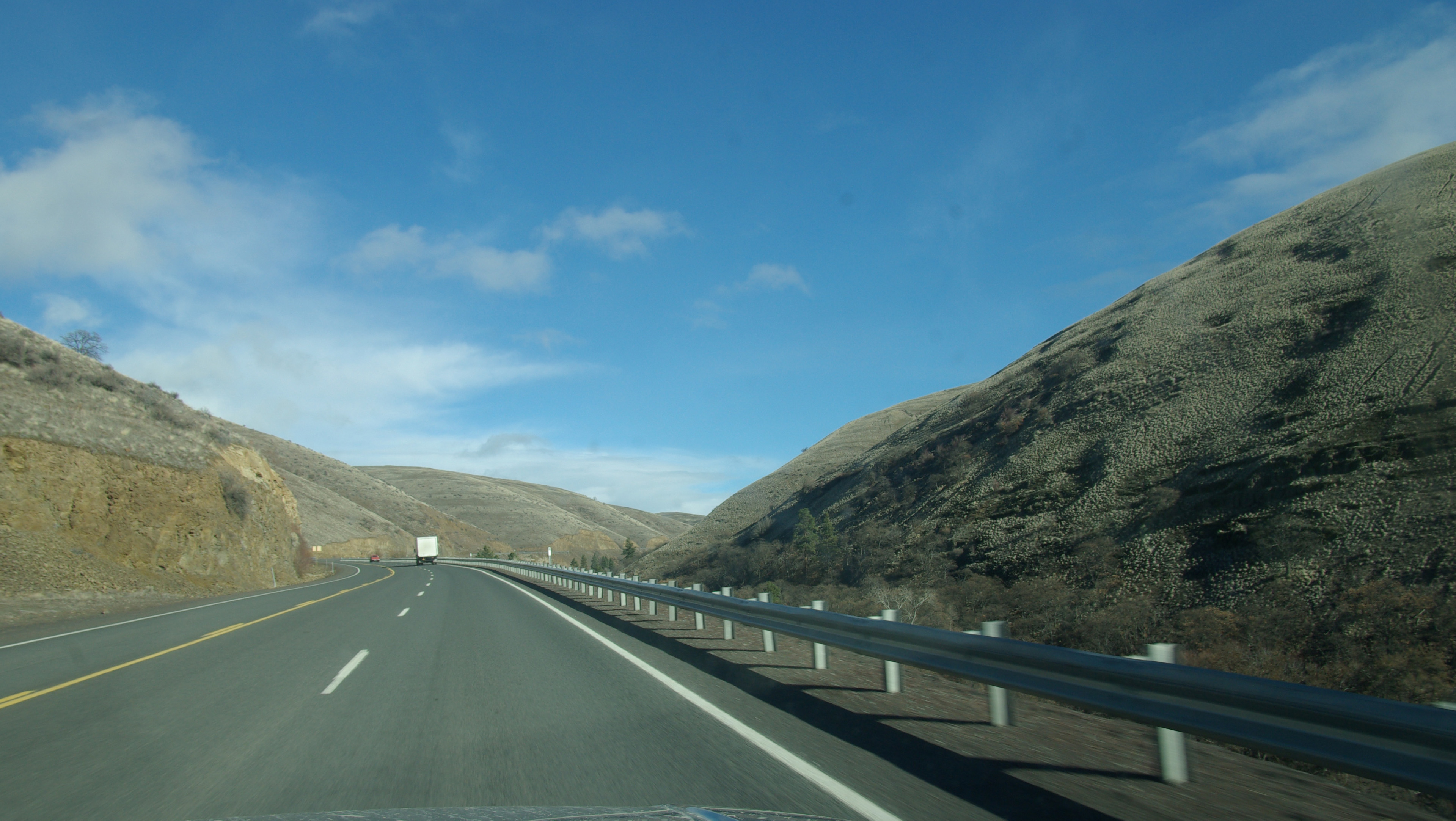 Tygh Grade north out of Tygh Valley in Wasco County, Oregon, USA